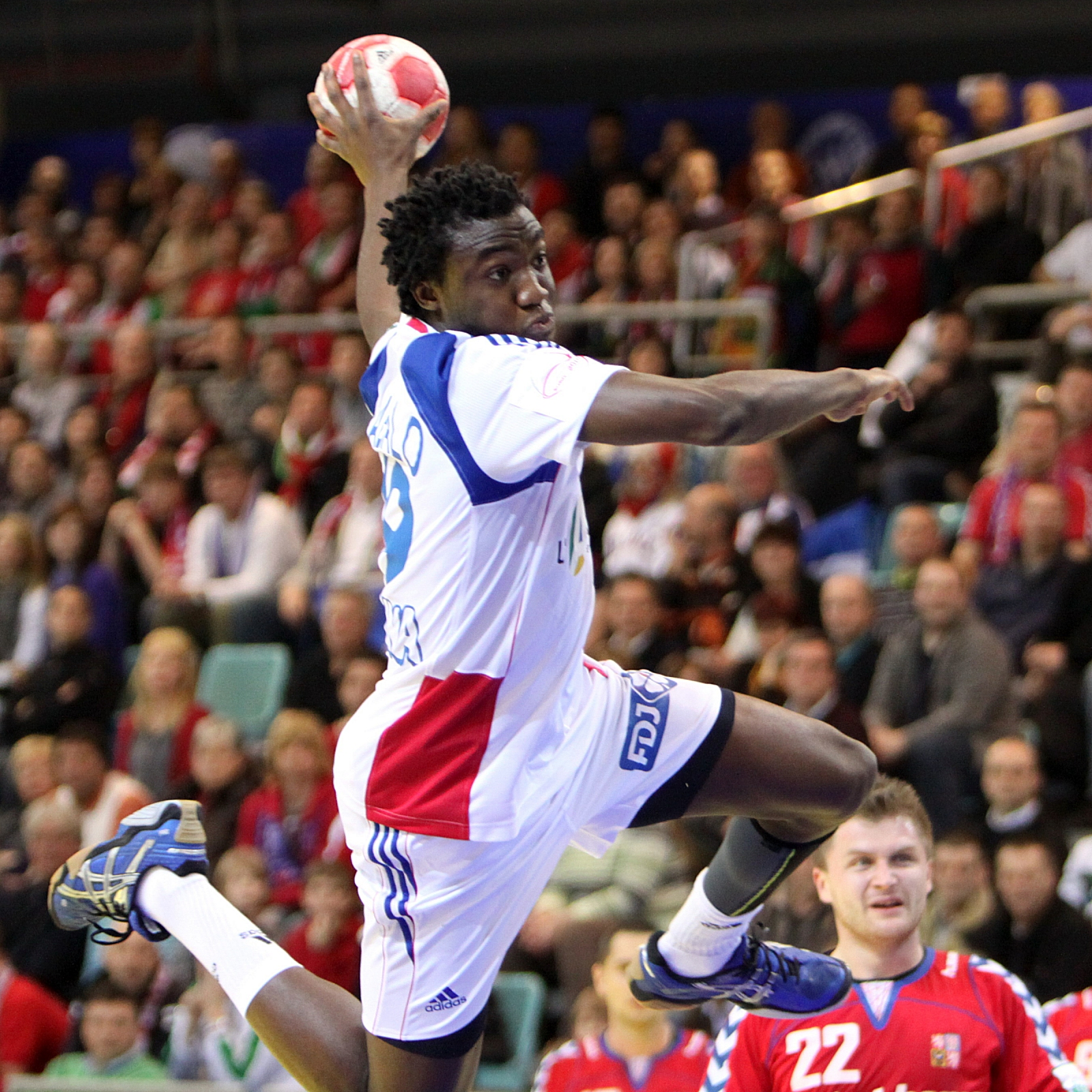 Luc Abalo (BM Ciudad Real), France national handball team